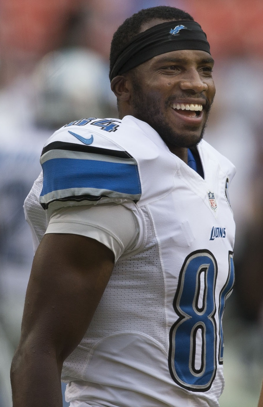 Lions at Redskins 8/20/15